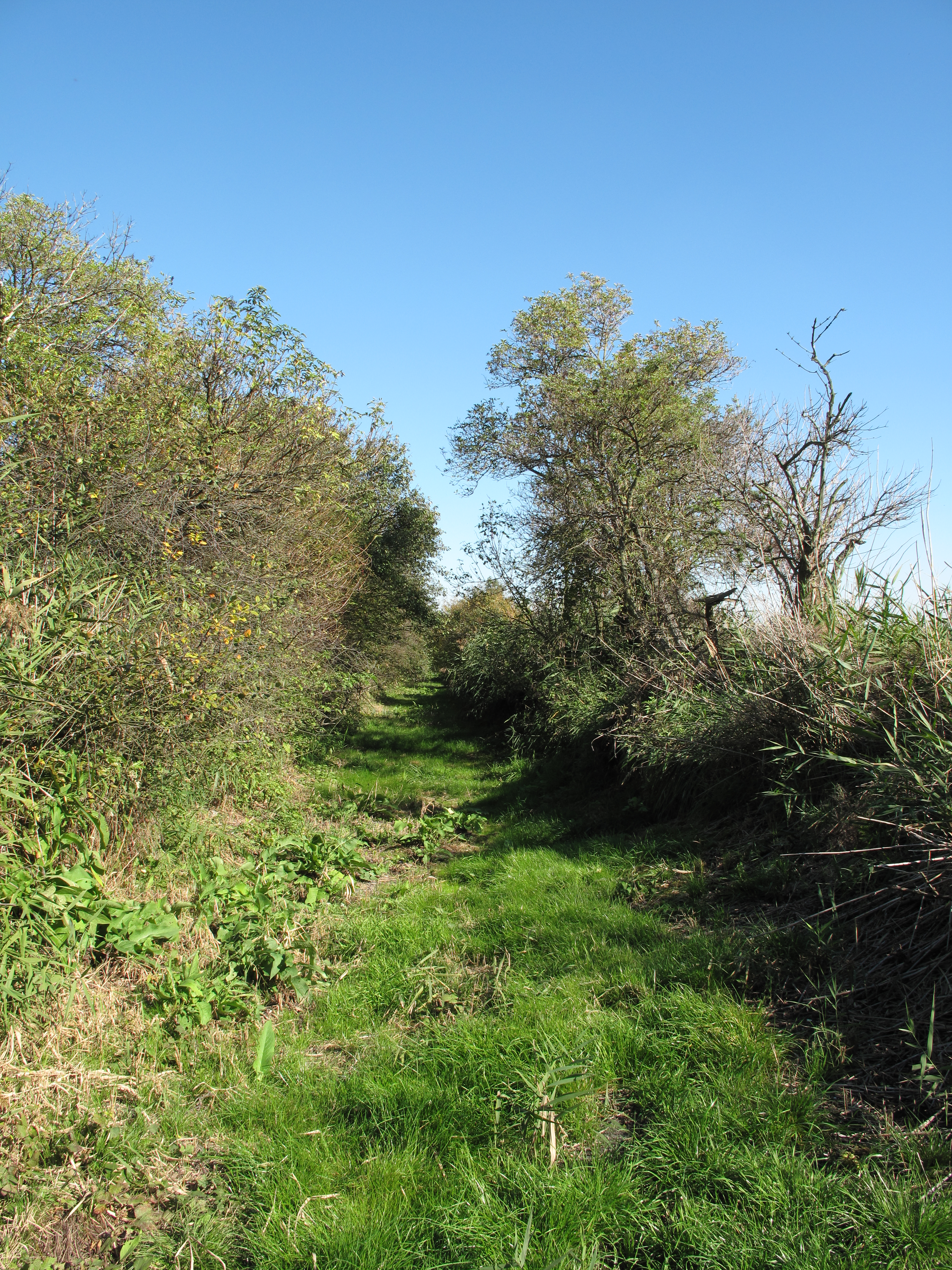 View to the rig from the west of Netřebská slaniska nature reserve, Mělník District, Czech Republic.